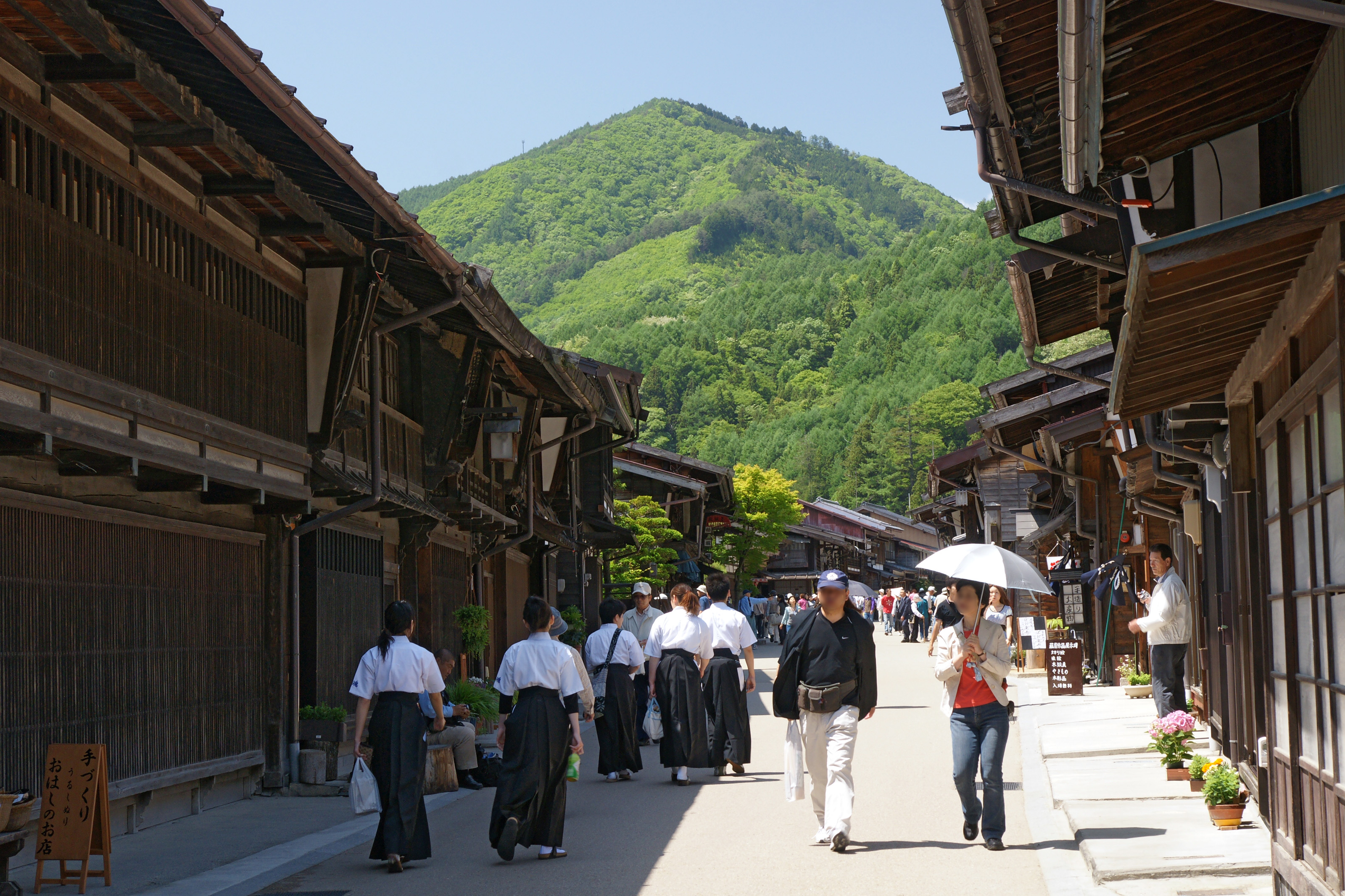 Narai-juku, Shiojiri, Nagano prefecture, Japan